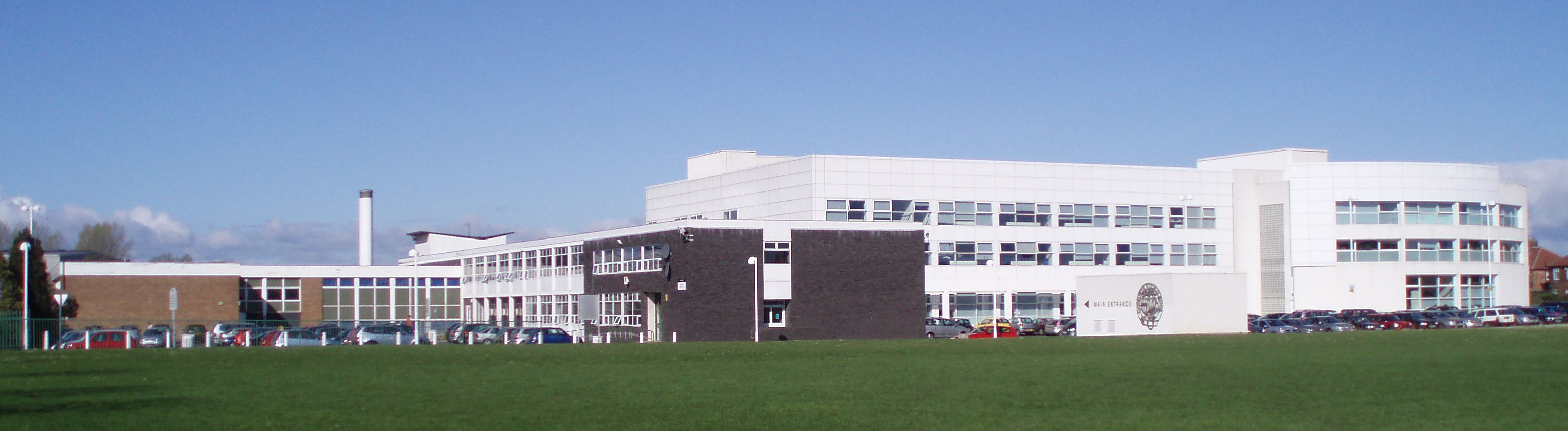 A Photograph of Gosforth High School's buildings. Gosforth High School, Newcastle Upon Tyne, England, UK